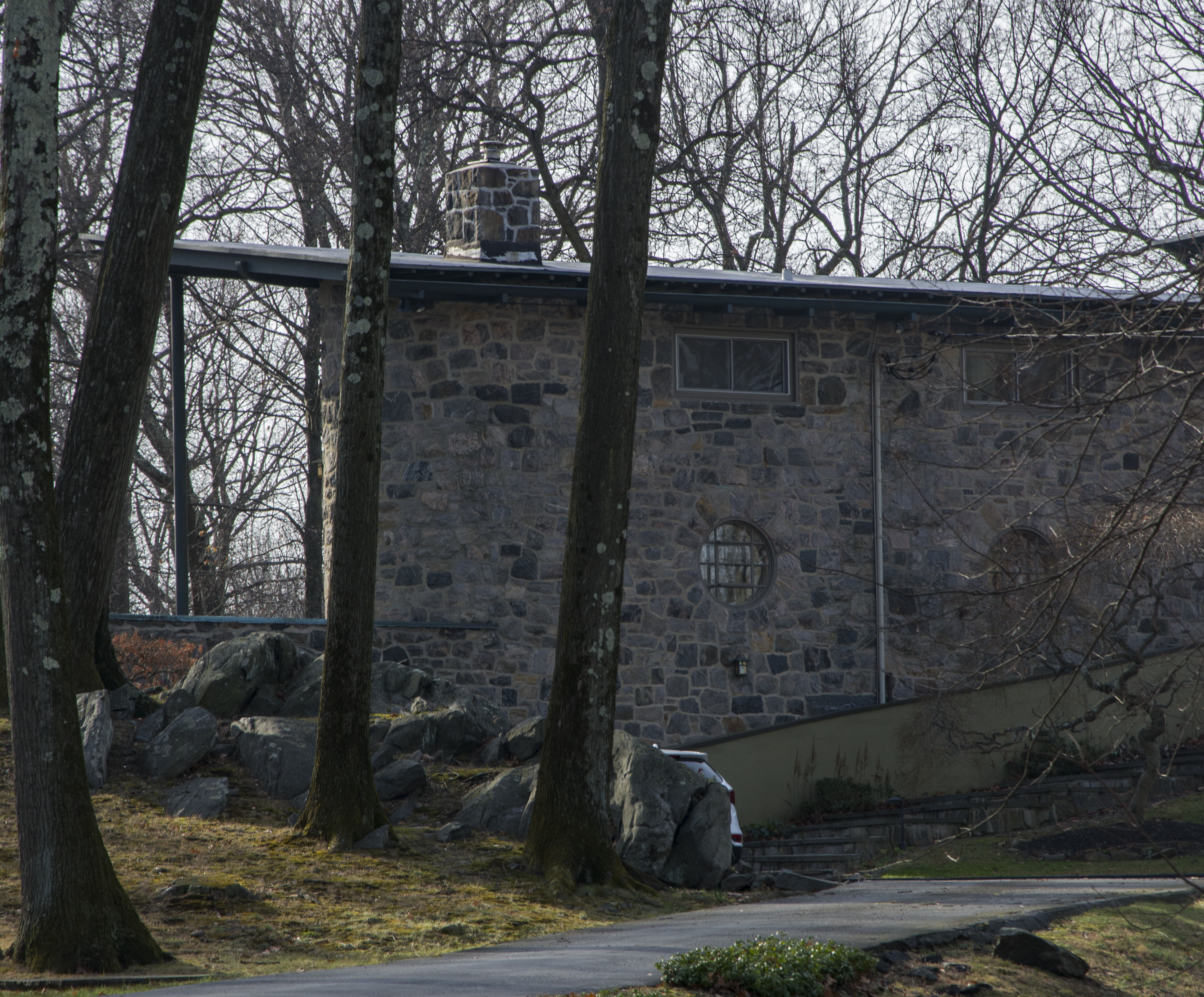 The Julian Street, Jr. residence, Briarcliff Manor, New York